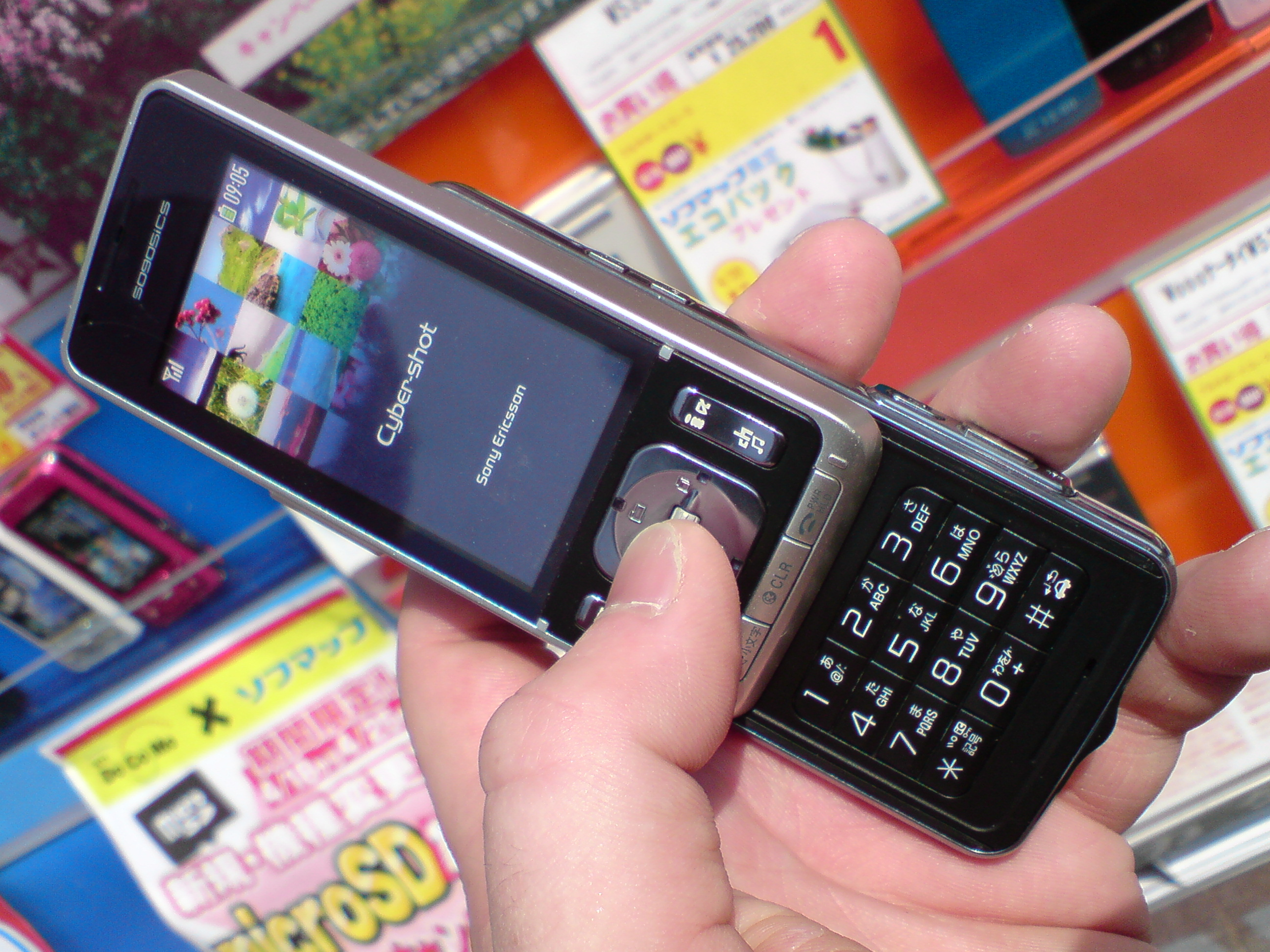 Sony Ericsson Japanese phoneJapanese phone